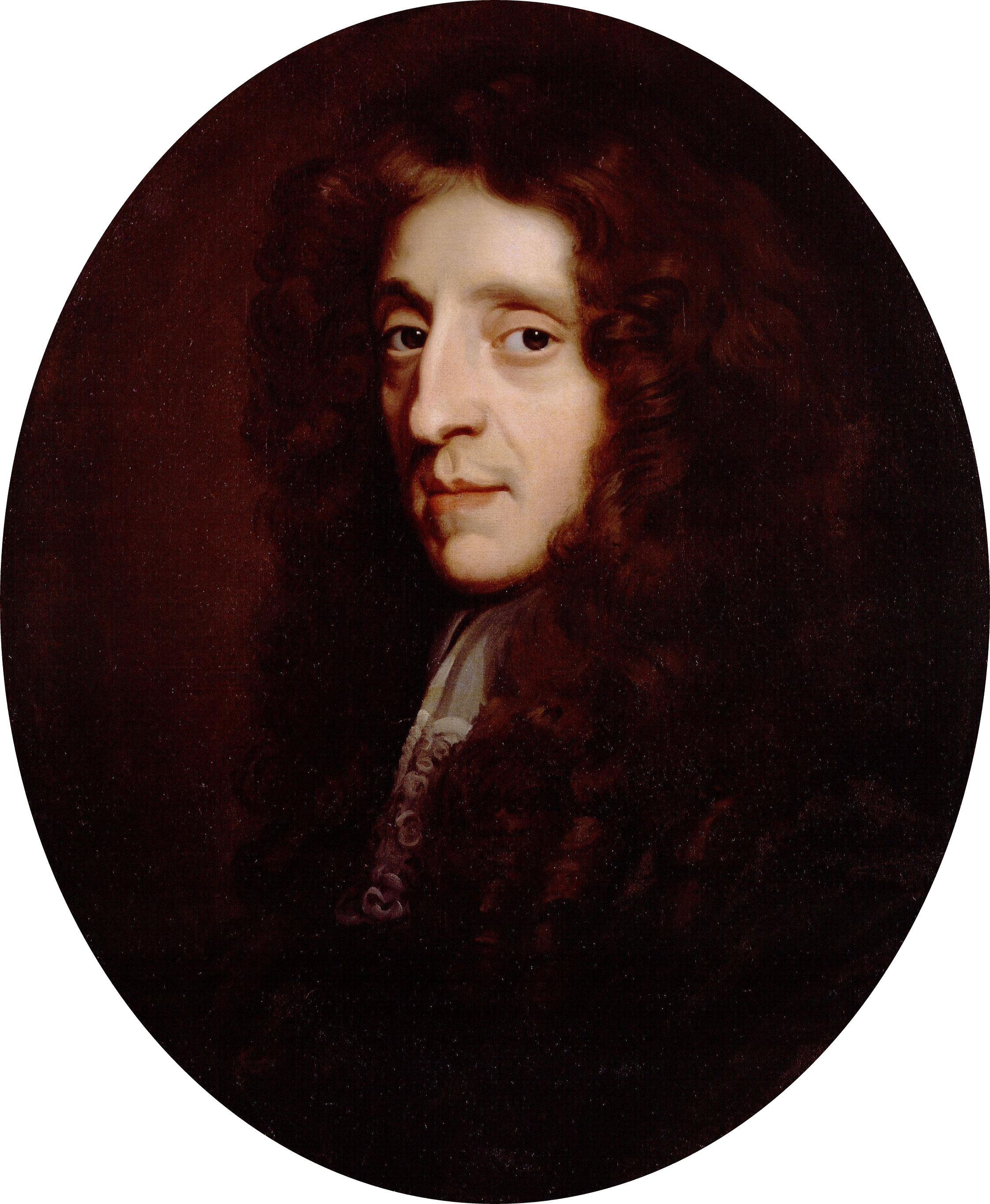 John Locke, by John Greenhill (died 1676). All images in this batch have been confirmed as author died before 1939 according to the official death date listed by the NPG.